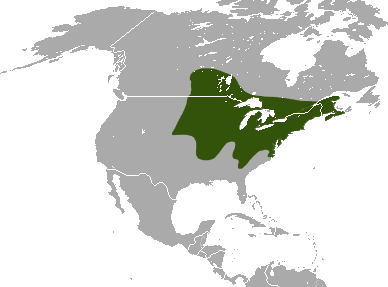 Northern Short-tailed Shrew (Blarina brevicauda) range